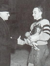 AIK IF's Axel Nilsson receiving the Le Mat trophy in 1938 Photographer unknown, press photo, picture taken 1938 which makes it public domain.